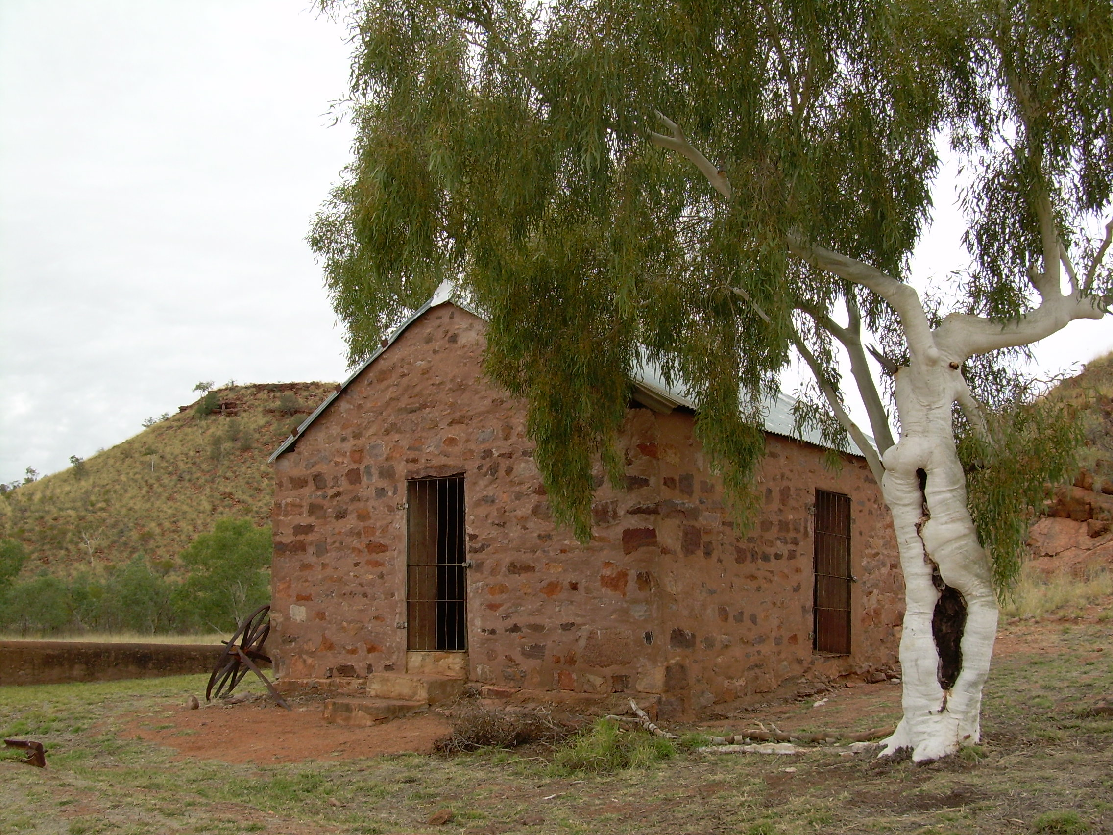 Hut at Barrow Creek, Northern Territory, Australia, winter 2007